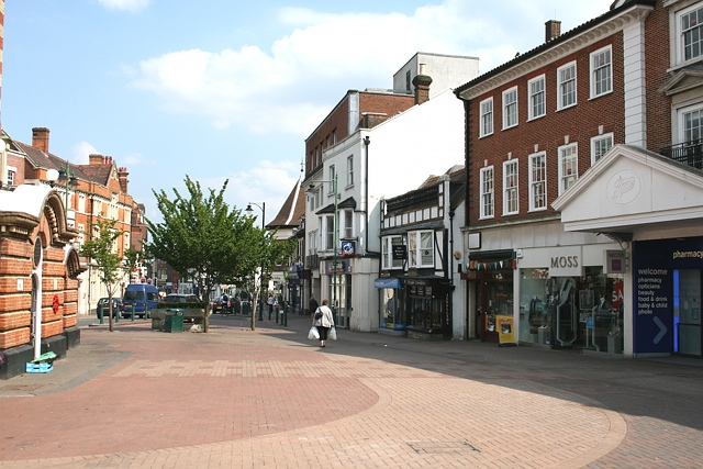 High Street from the Clock Tower